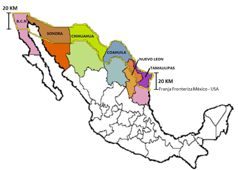 Apart from Ensenada, Baja California, in the colored areas of stronger colors applies Border Daylight Saving Time begins on the second Sunday of March and ends the first Sunday in November In the rest of the country on Daylight Saving Time begins on the first comingo April and ends the last Sunday in October